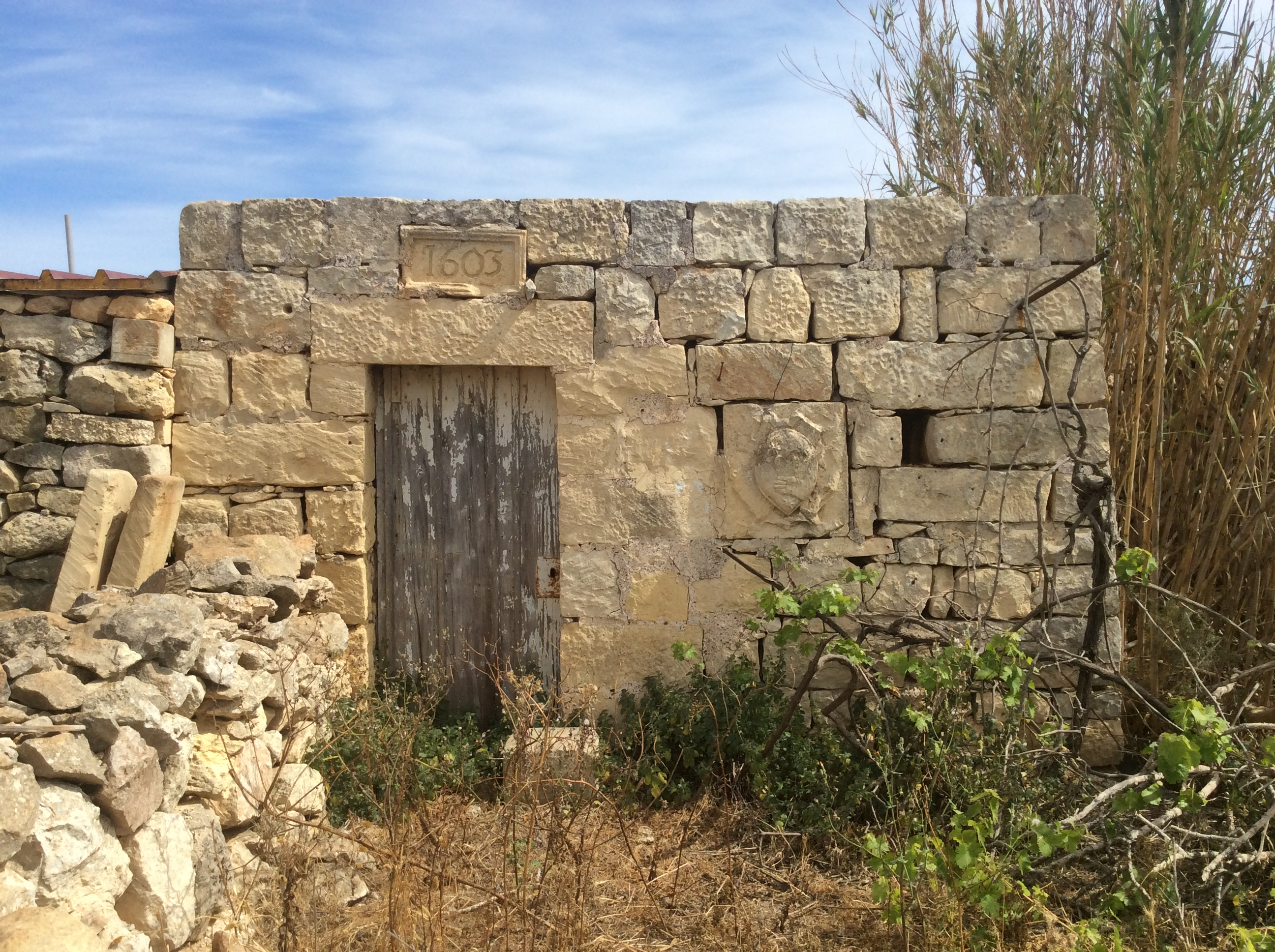 Buildings in Hal Tmim This media is about Maltese cultural property with inventory number 01978.